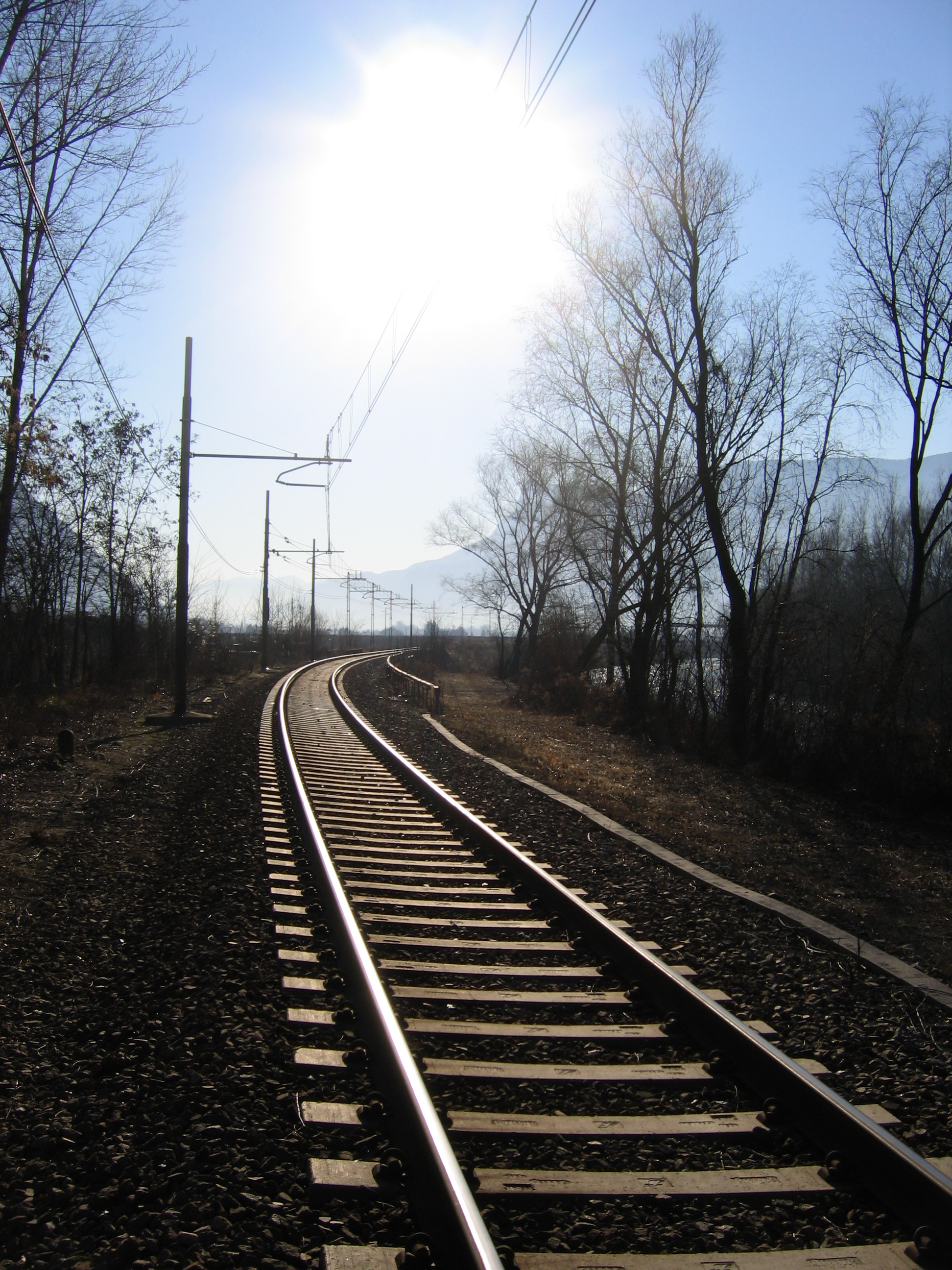 Track Bolzano-Merano railway